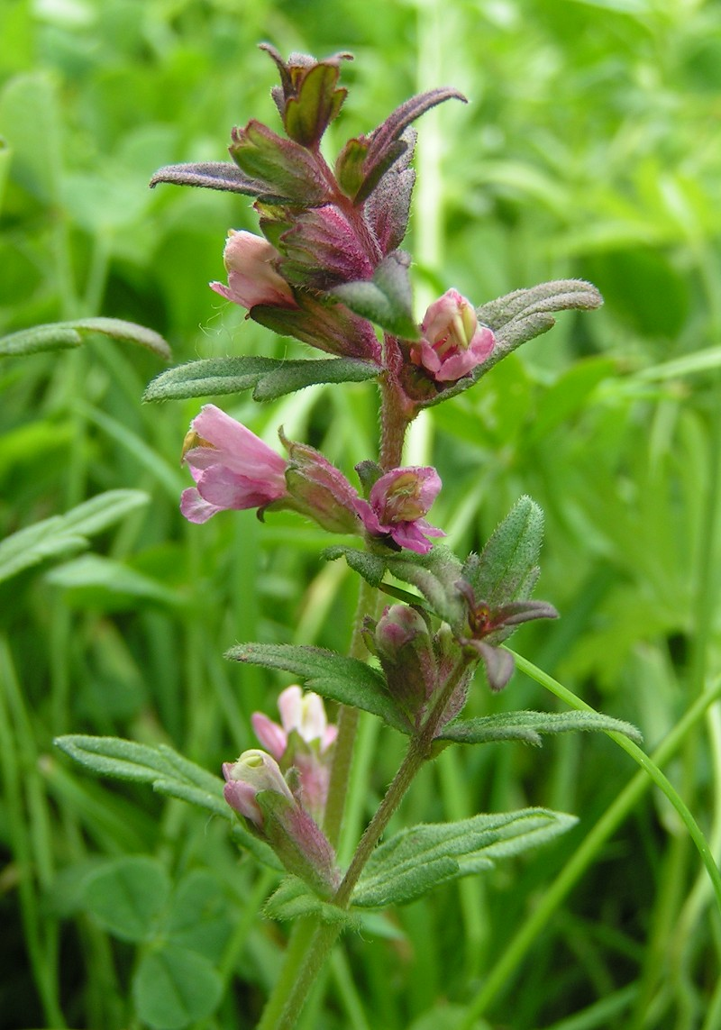 Red bartsia (Odontites vernus). Photo by sannse, Great Holland Pits, Essex, 6 June 2004.